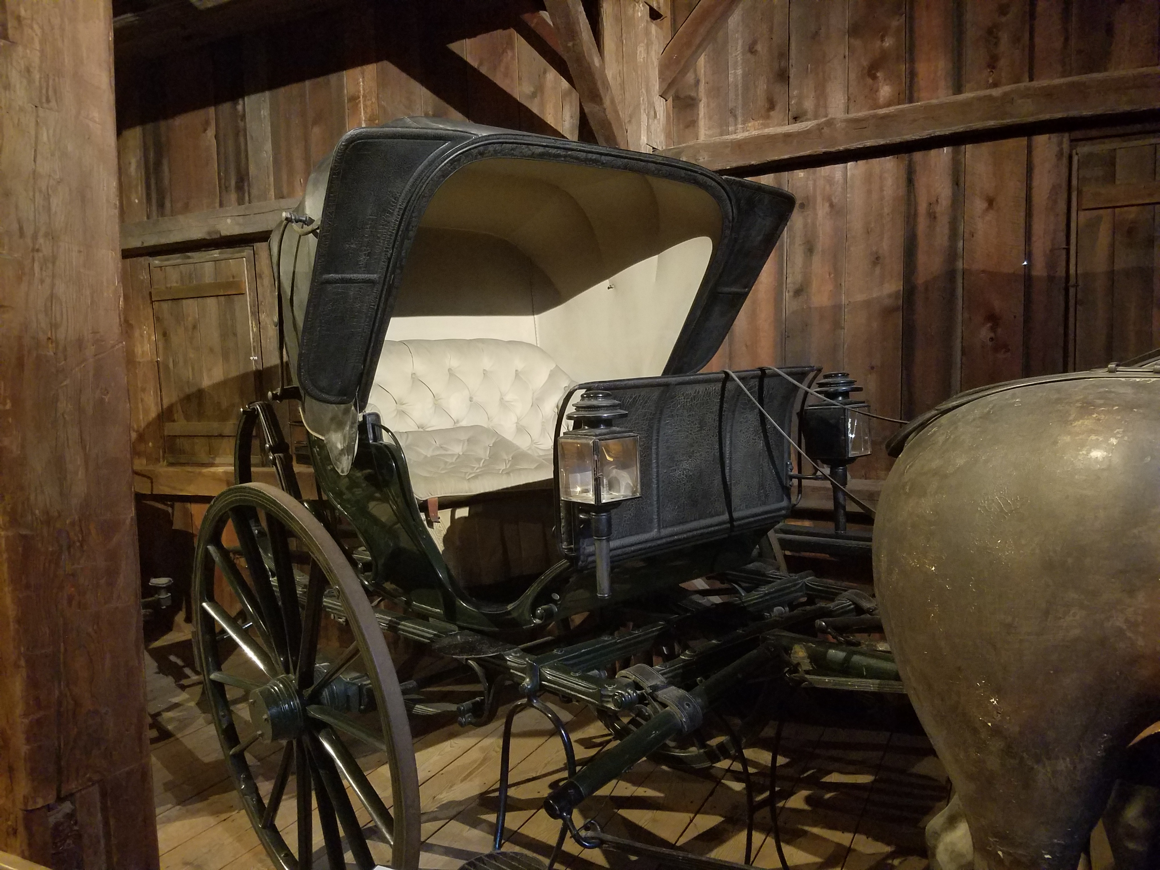 Curricle on display at the Shelburne Museum. built circa 1895 by J.B. Brewster & Company, New York.